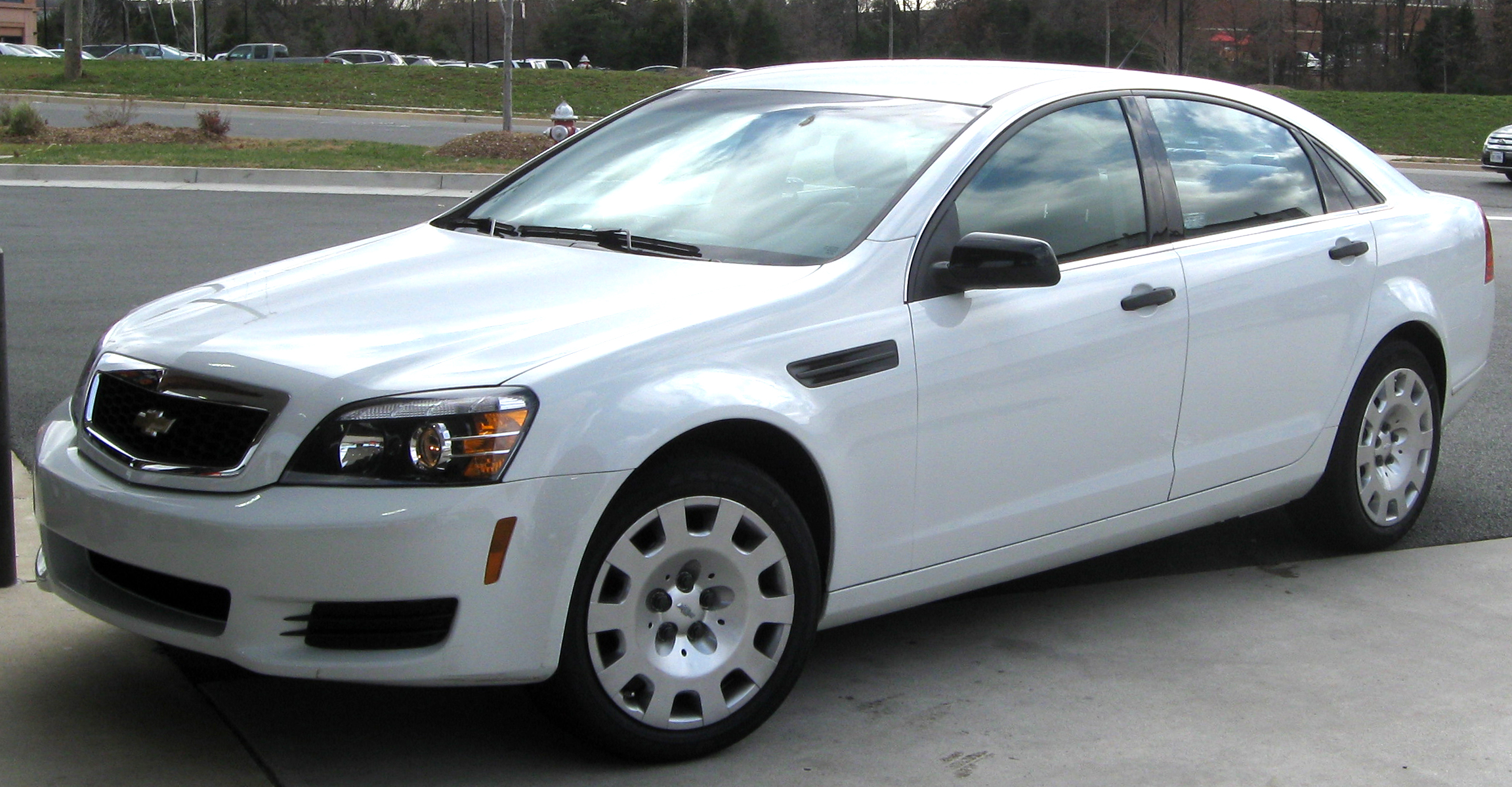 2011 Chevrolet Caprice photographed in Chantilly, Virginia, USA.